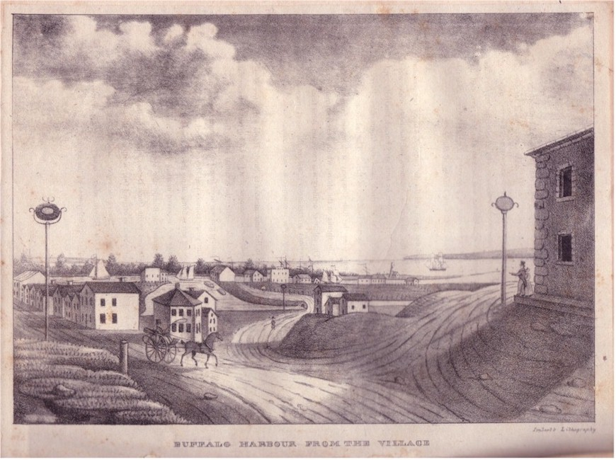 Line engraved lithograph of Buffalo Harbor